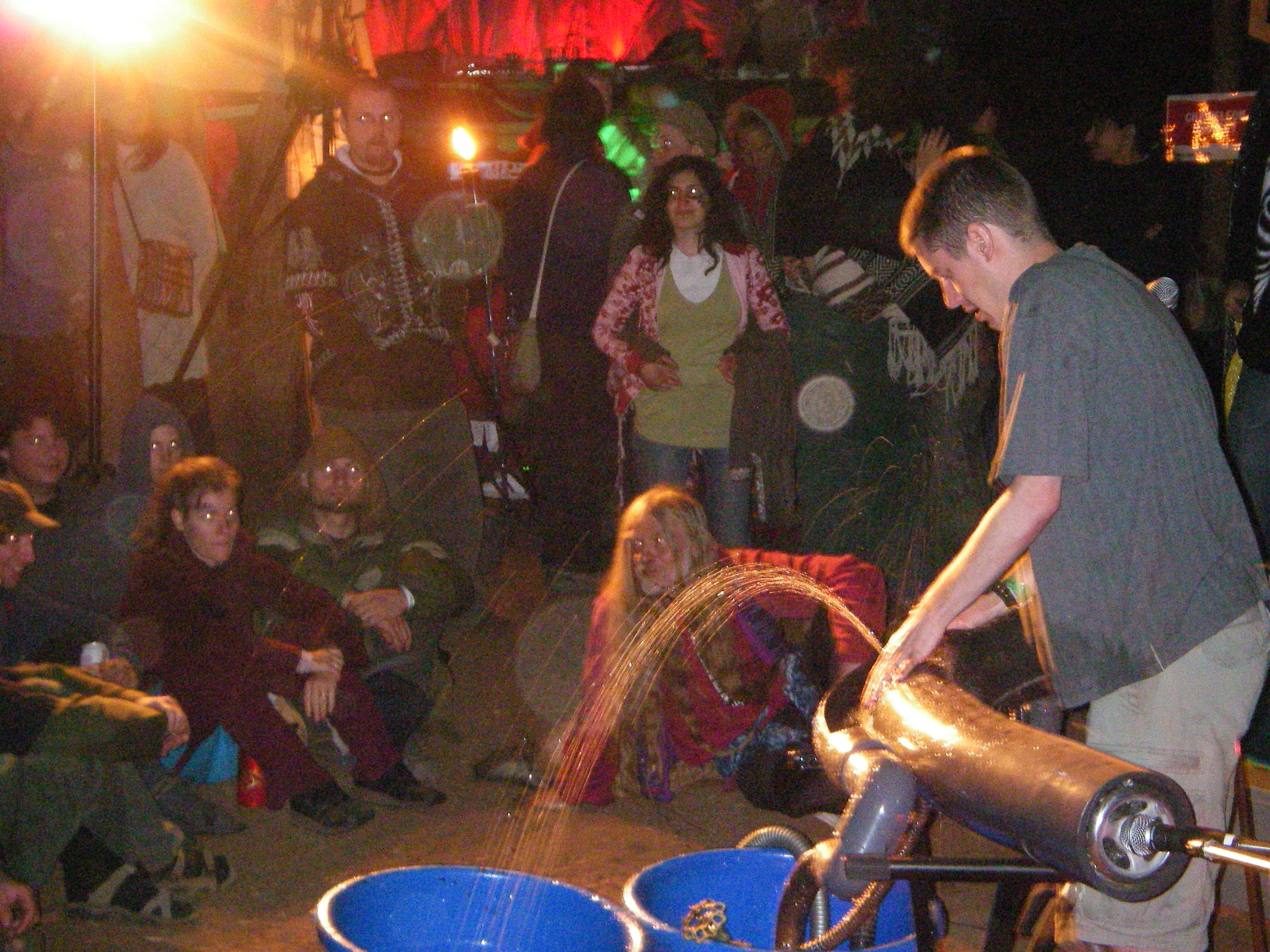 Picture of Ryan Janzen's hydraulophone performance at the OM Festival Re:union